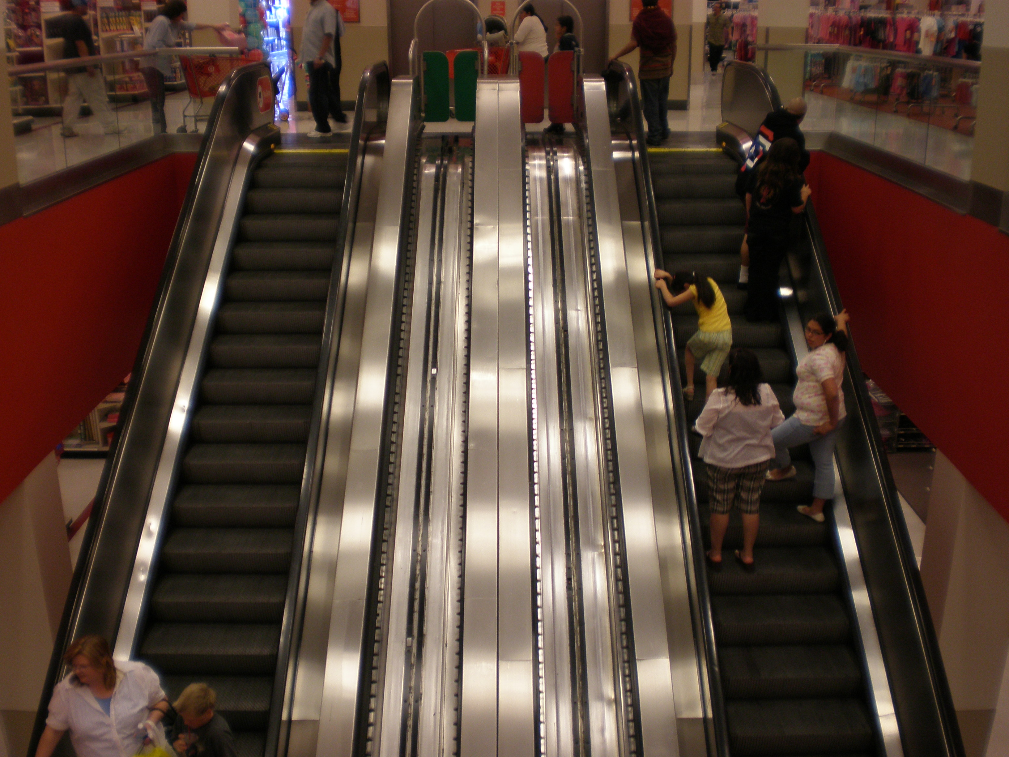 Escalators at the Target store in The Shops at Tanforan mall in San Bruno, California, capable of transporting shopping carts via the specialized conveyor belt in the center.